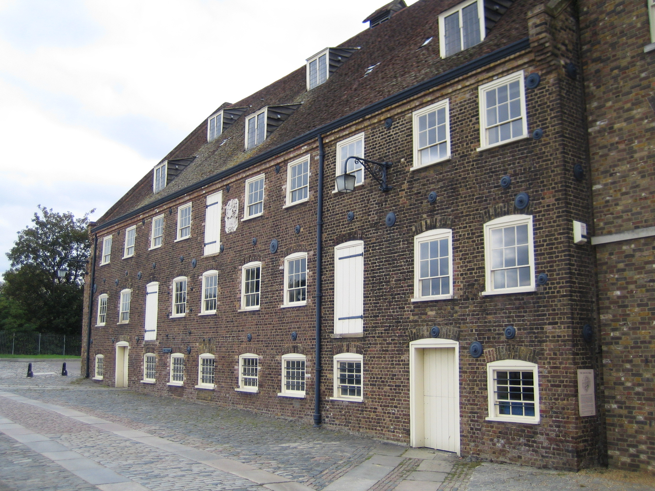 House Mill, Three Mill Lane, London, UK